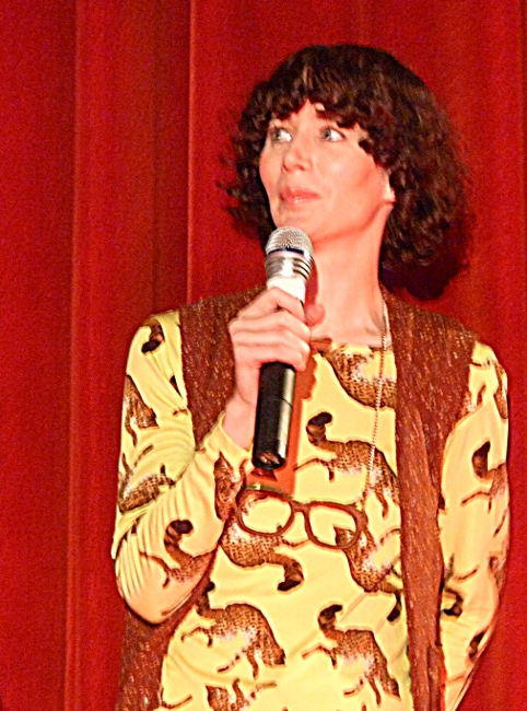 Miranda July at the Berlin International Film Festival (Berlinale) 2011 after the screening of The Future at Adria-Filmbühne.